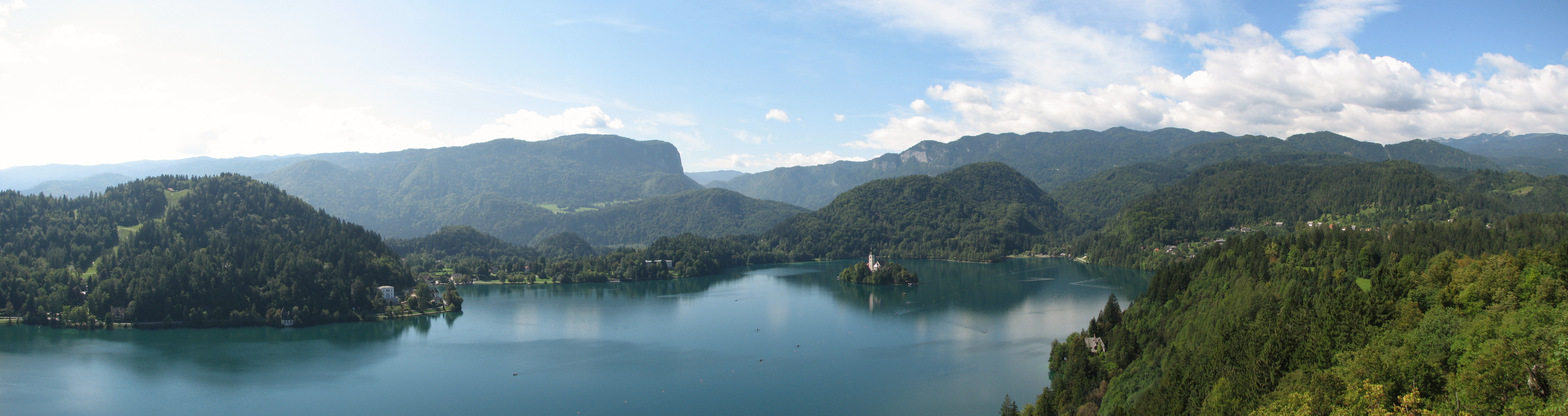 Lake bled seen from the castle